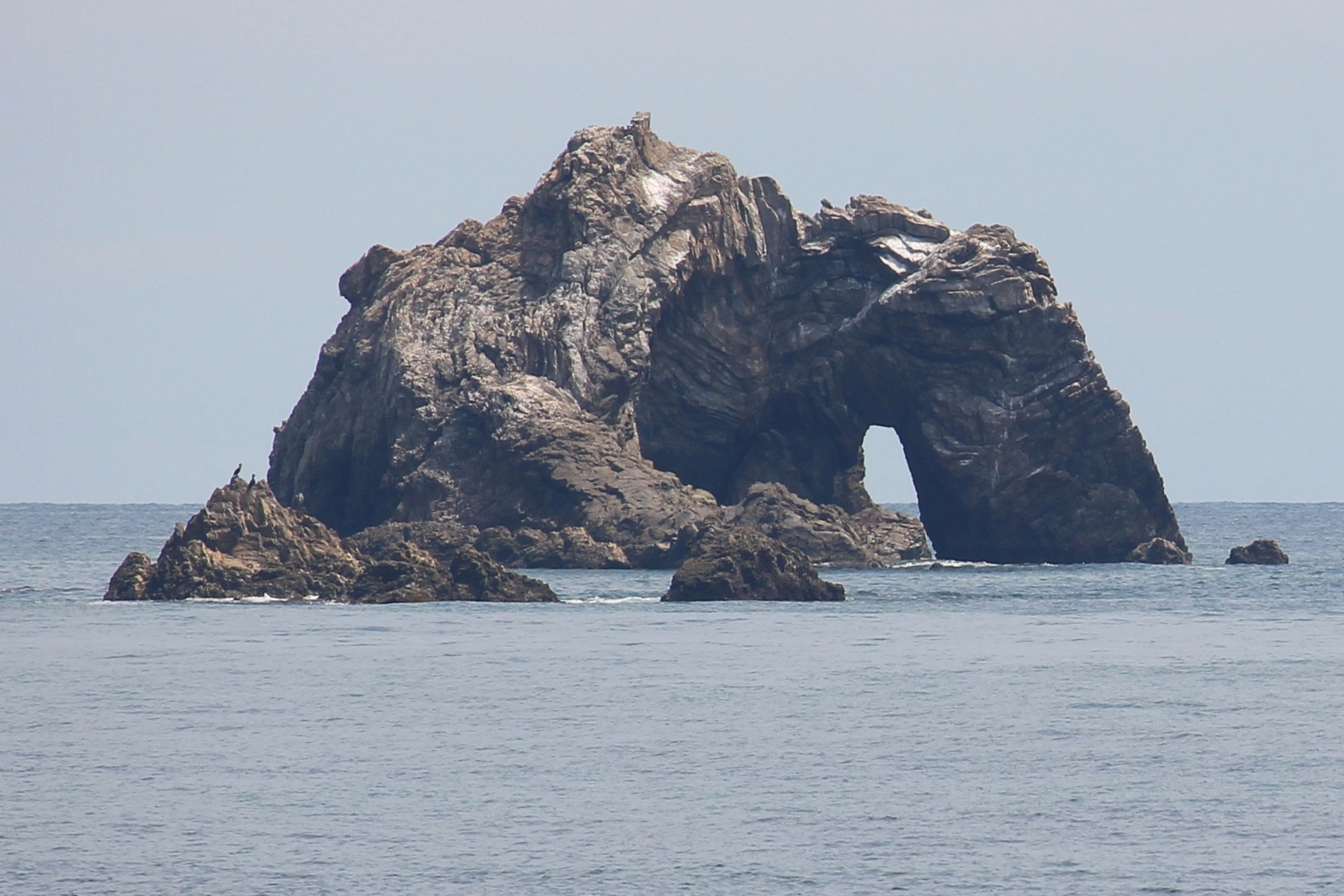 Hii Stone-gate (Hii-no-sekimon), near Koiji Beach, Tahara, Aichi prefecture, Japan.